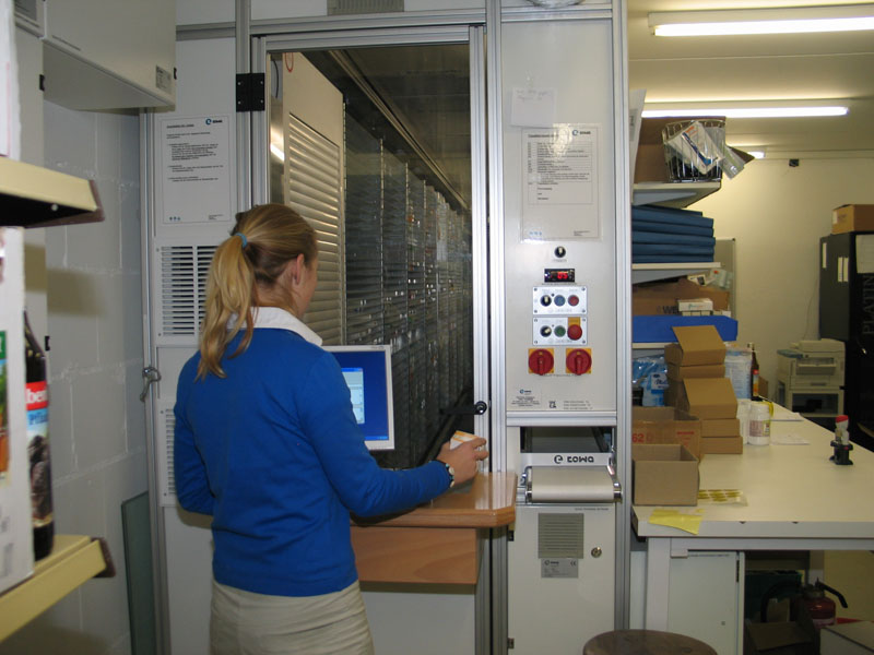 Modern German Pharmacy (Robotservice) 002